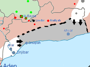 This map is showing Abyan battles and AQAP territorial progress in February of 2016, colored in Grey.